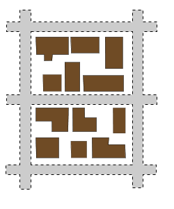 Christian de Portzamparc's "îlot ouvert" (open block). Drawing by Thierry Bézecourt (inspired from a conference by CP at the Collège de France).